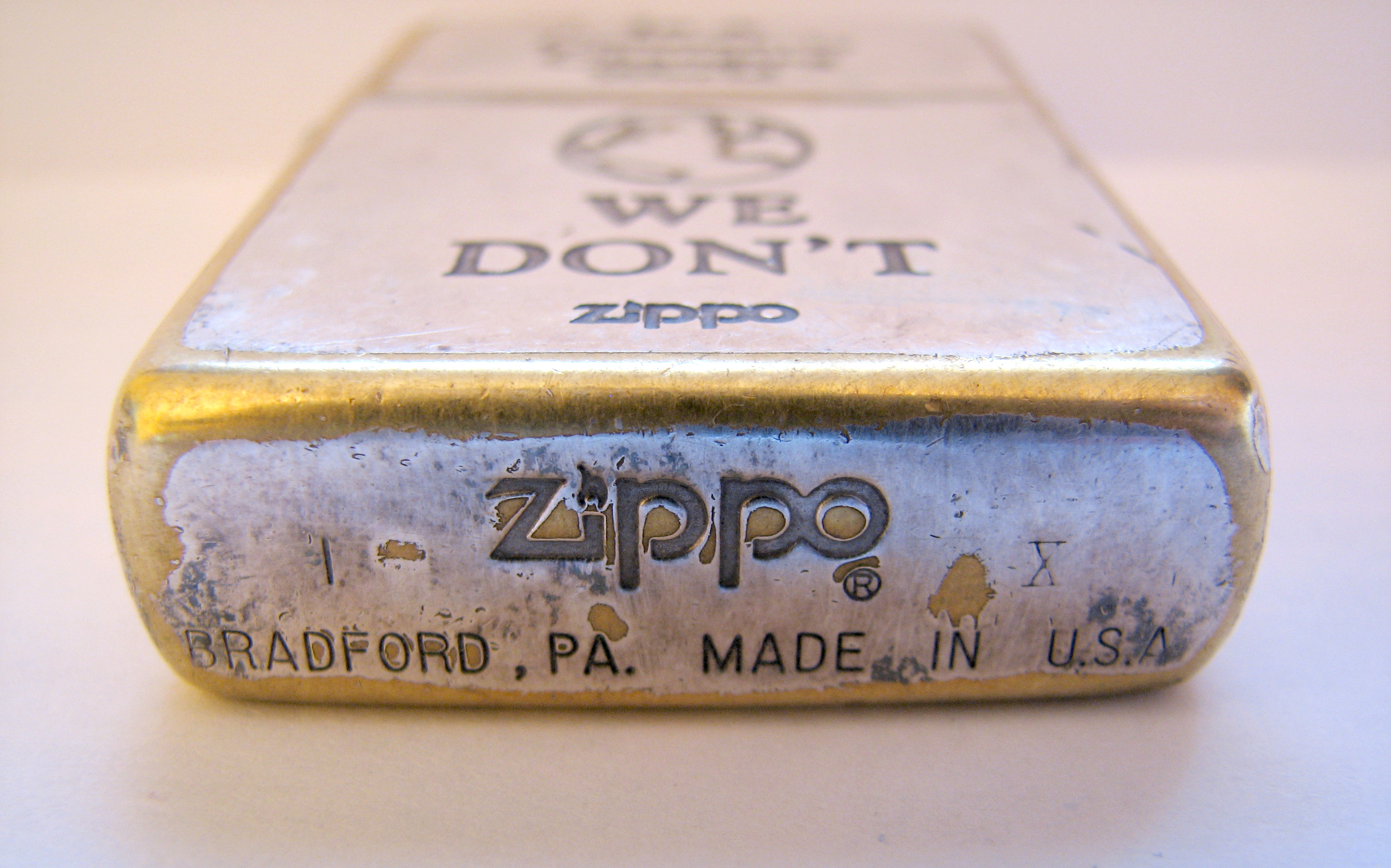 Zippo lighter (bottom)